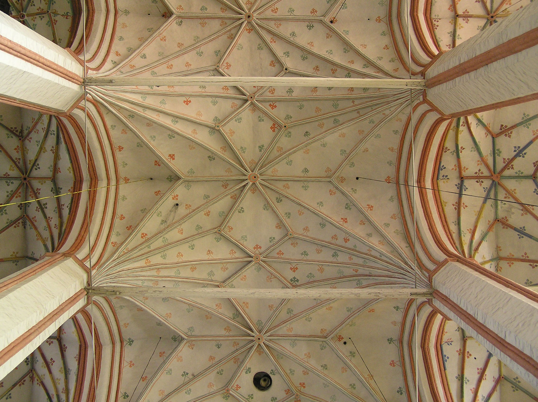 Toruń, Virgin Mary church, vault in main nave.